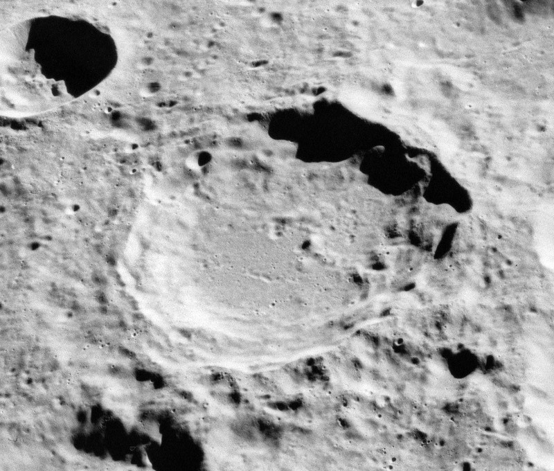 Oblique view of Vesalius, on the far side of the moon. North is in lower right.